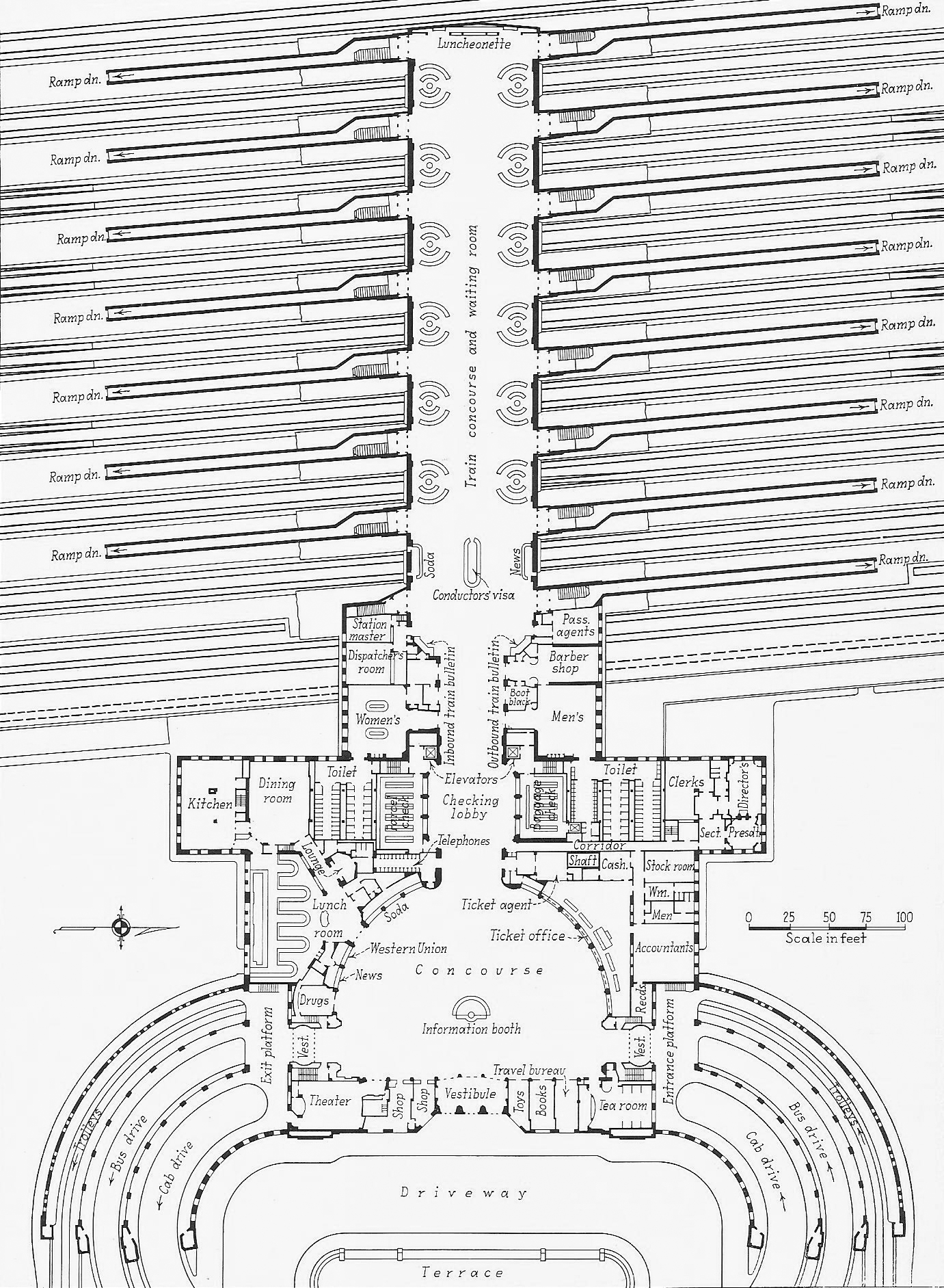 Floor plan of the main level and tracks of Cincinnati Union Terminal.